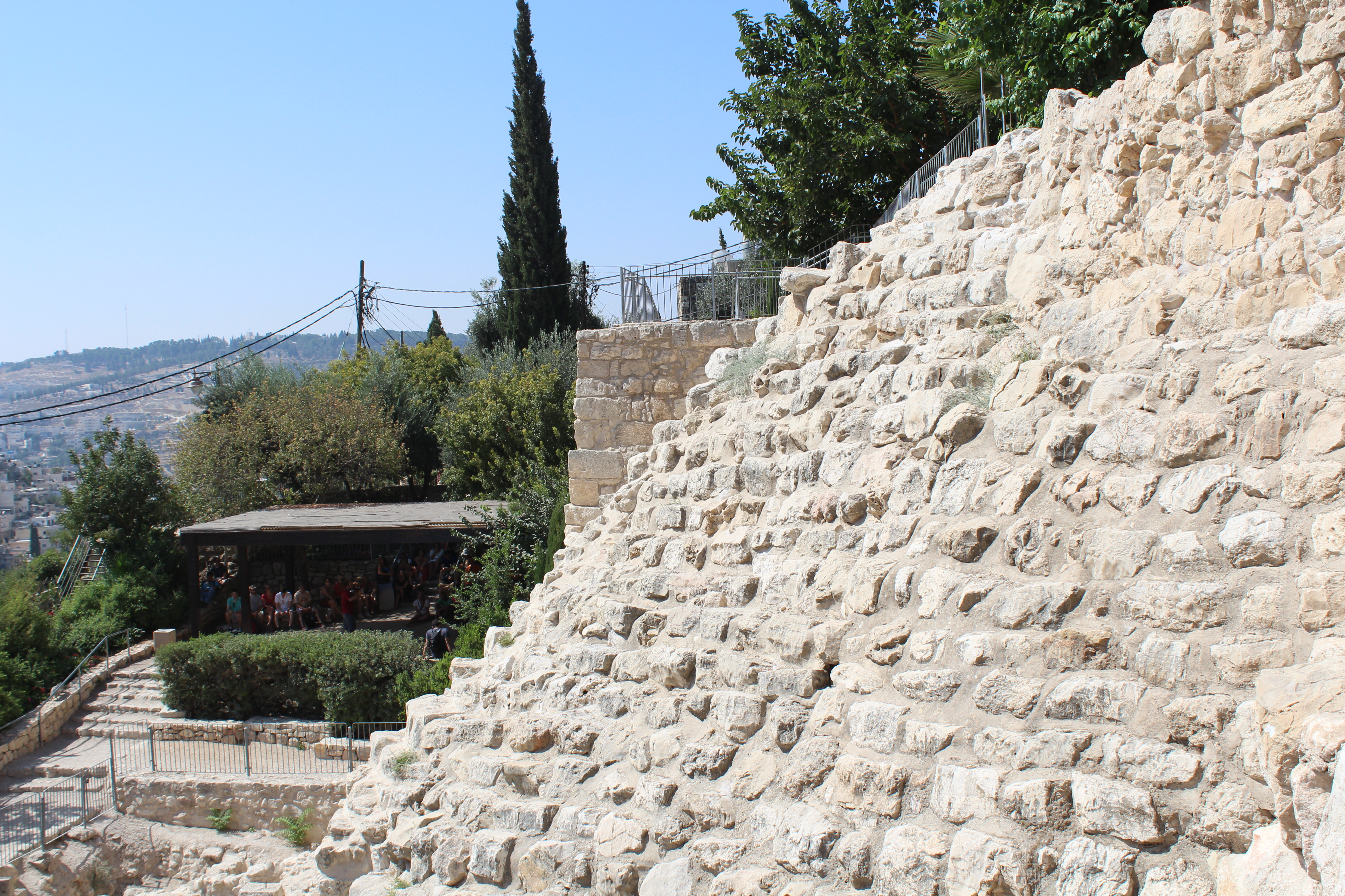 The Stepped Stone Stracture, City of David, Jerusalem This image was taken as part of the Elef Millim project trip to the City of David, in Jerusalem which was held on Friday, 16th August 2013. To view all images uploaded as part of the Elef Millim Project